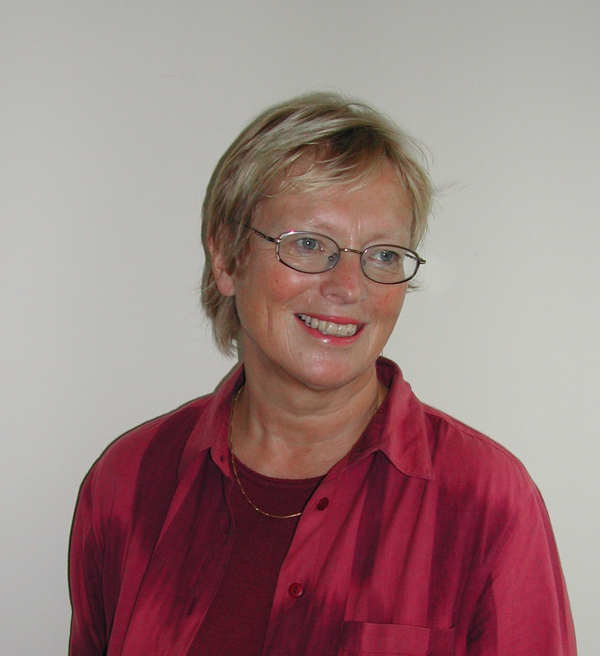 Sabine Bartholomeyczik, a popular german nursing-scientist